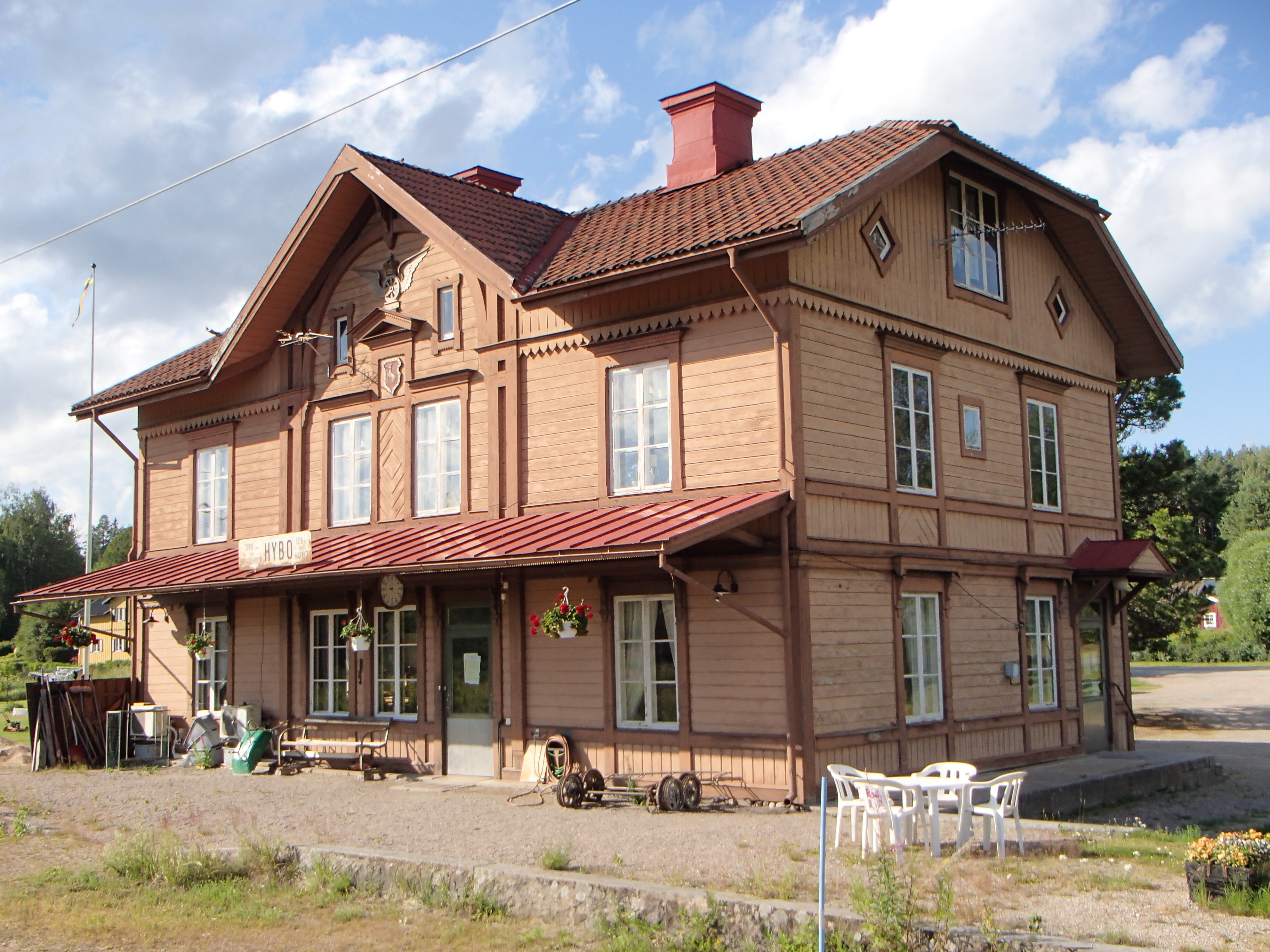 The former train station building of "Hybo stationshus" at Hybo byväg 10 in Hybo, Ljusdal Municipality